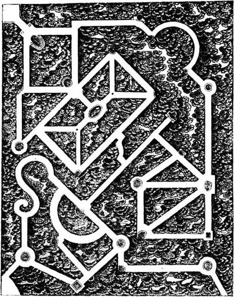 Former labyrinth, Versailles, plan.